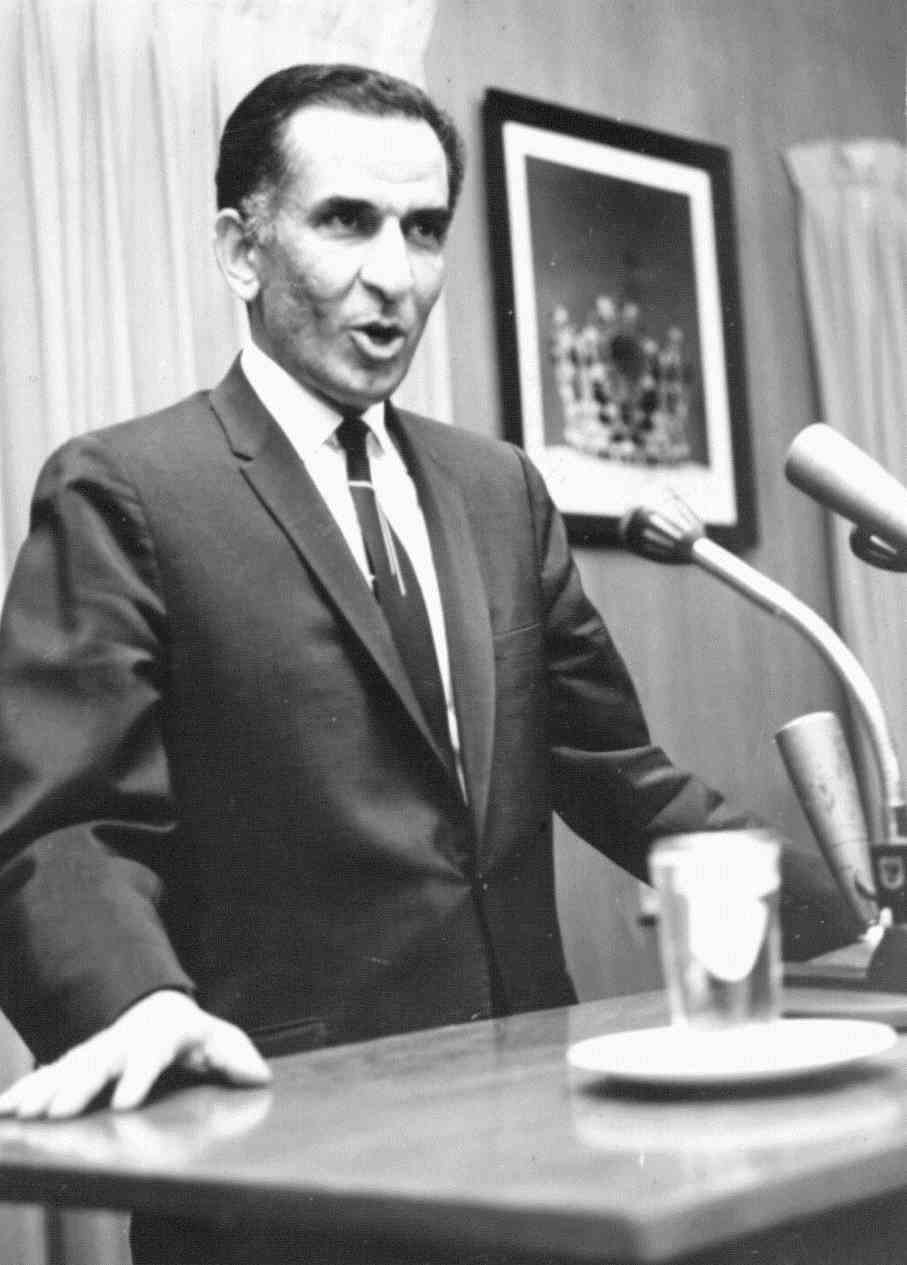 Jamshid Amouzegar Speech